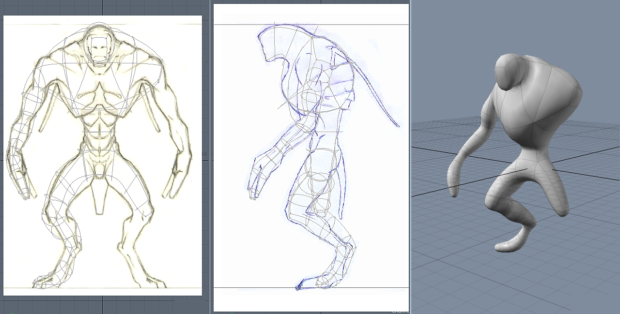 Backdrop images used in 3D character modeling